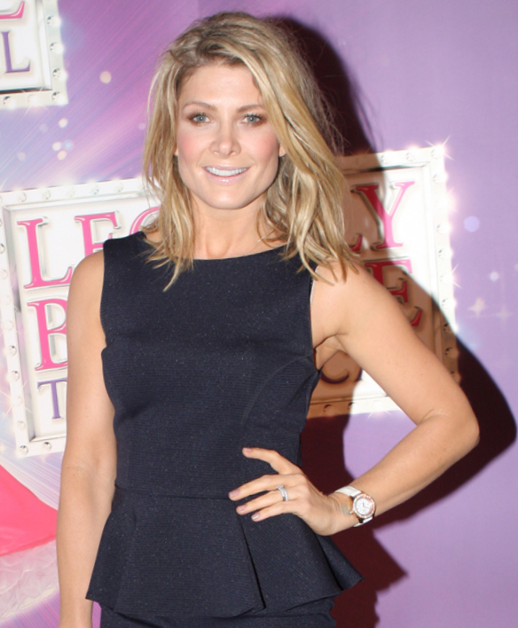 Natalie Bassingthwaighte at the Gala World Australian Premiere Purple Carpet - Legally Blonde 2012.